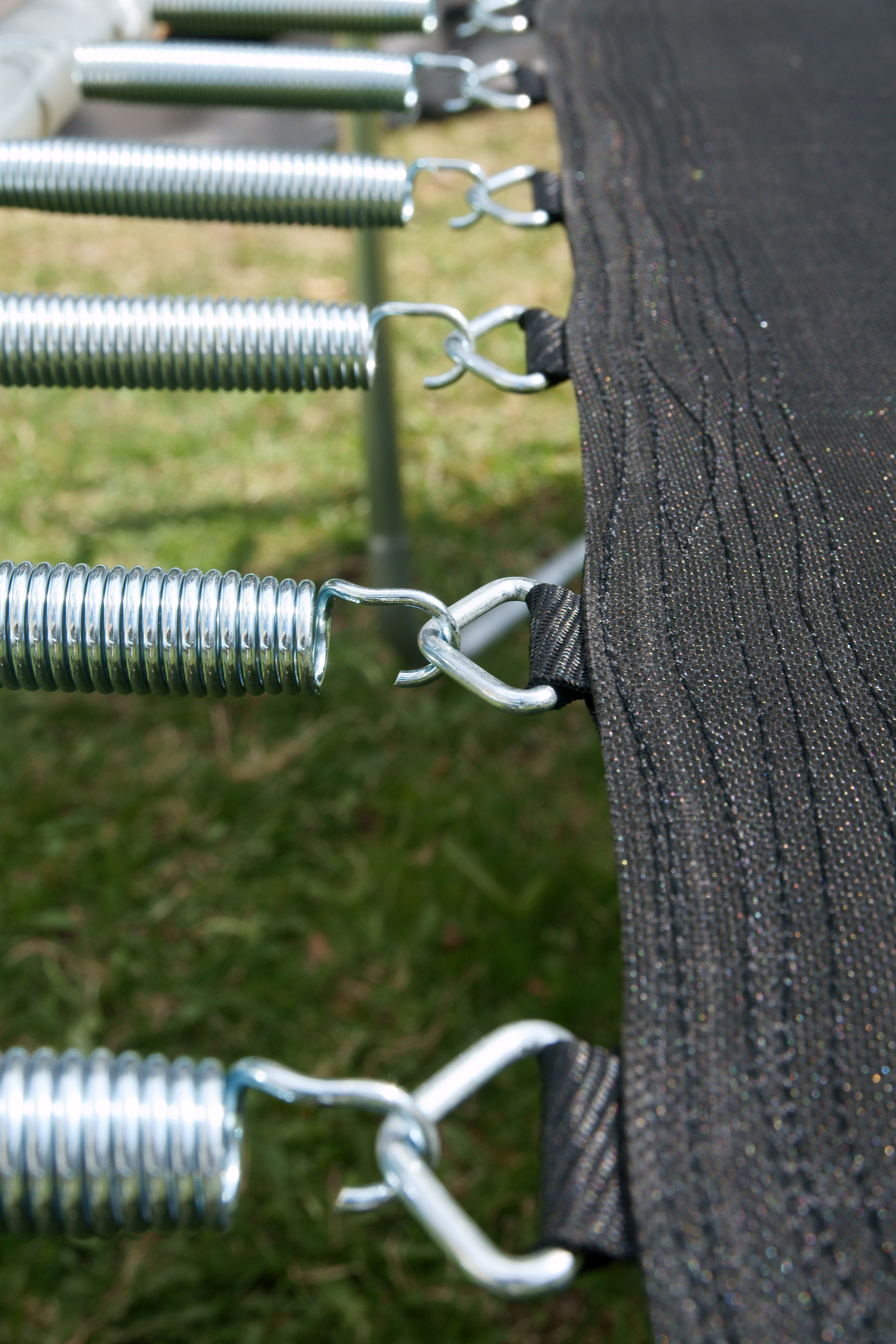 Trampoline.